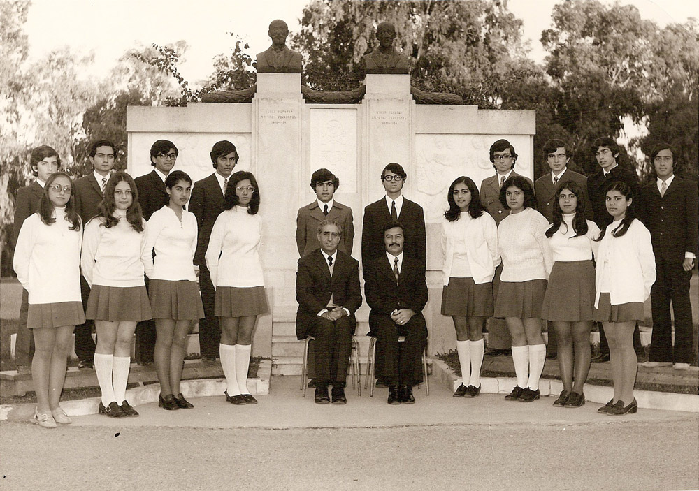 Melkonian Educational Institute's graduates (1973)